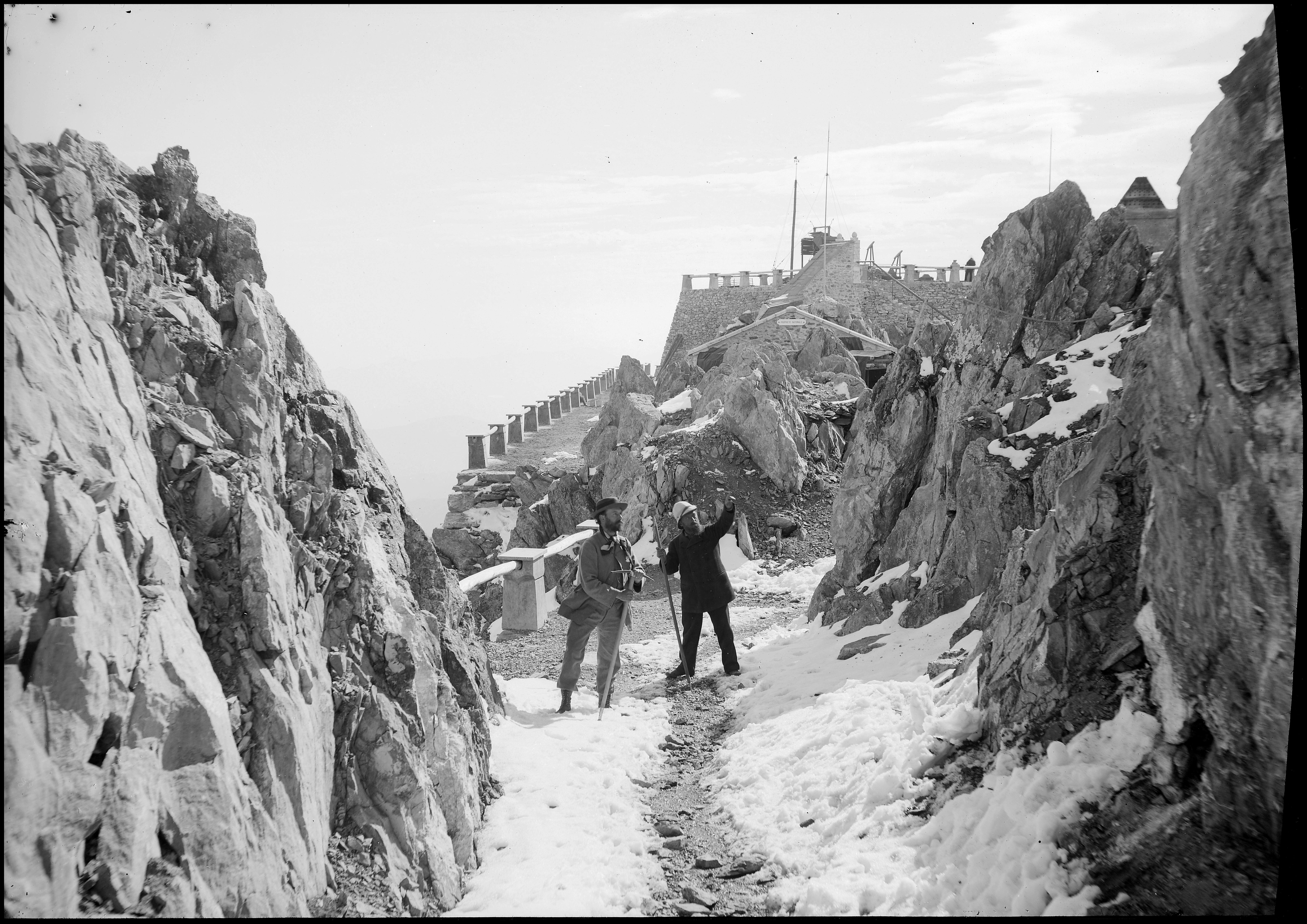 Picture of the observatory entrance in the Pic du Midi de Bigorre